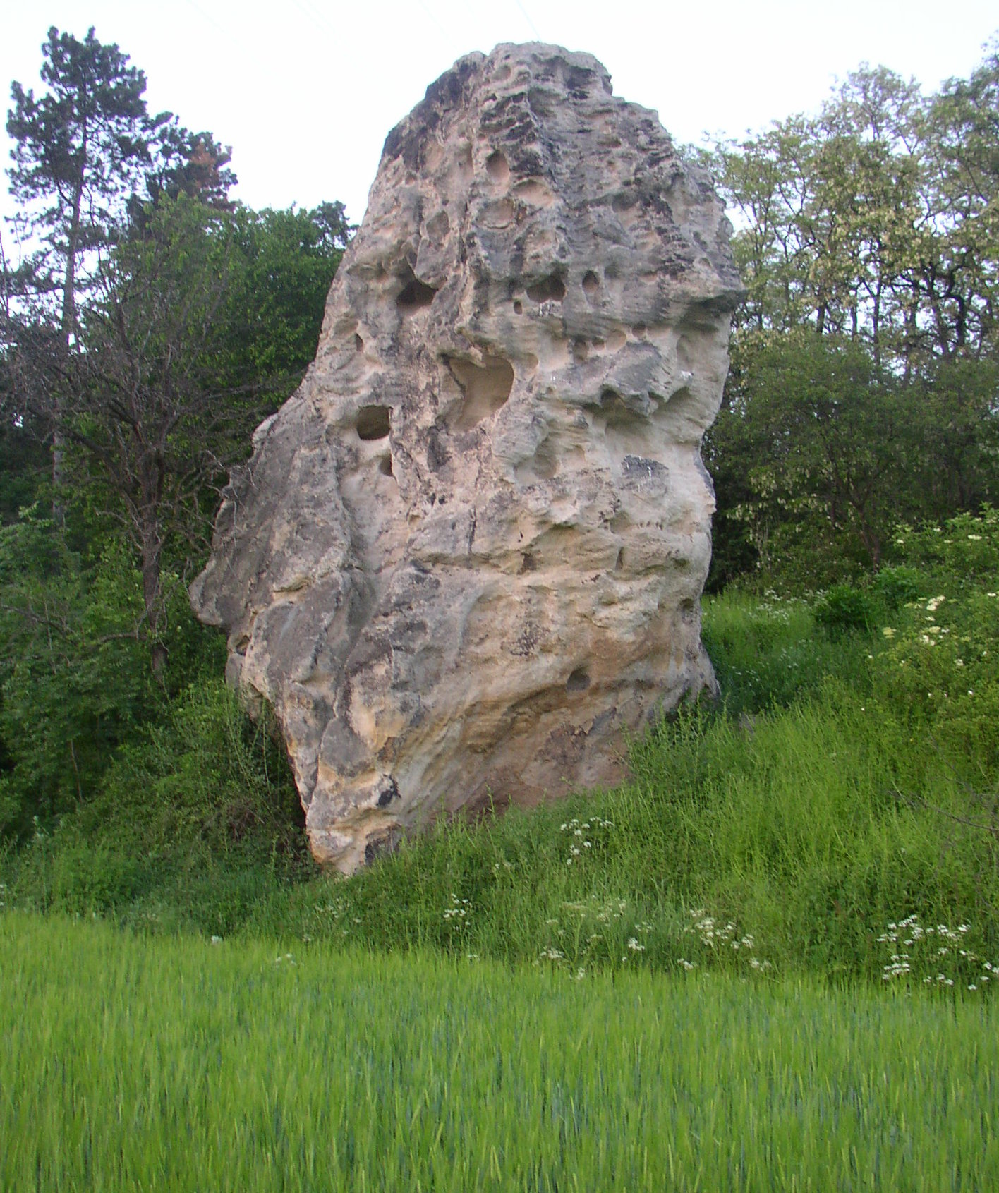 Podlešínská skalní jehla natural monument, a lonely sandstone (upper carboniferous arcose) rock near village of Podlešín, Kladno District, Czech Republic.